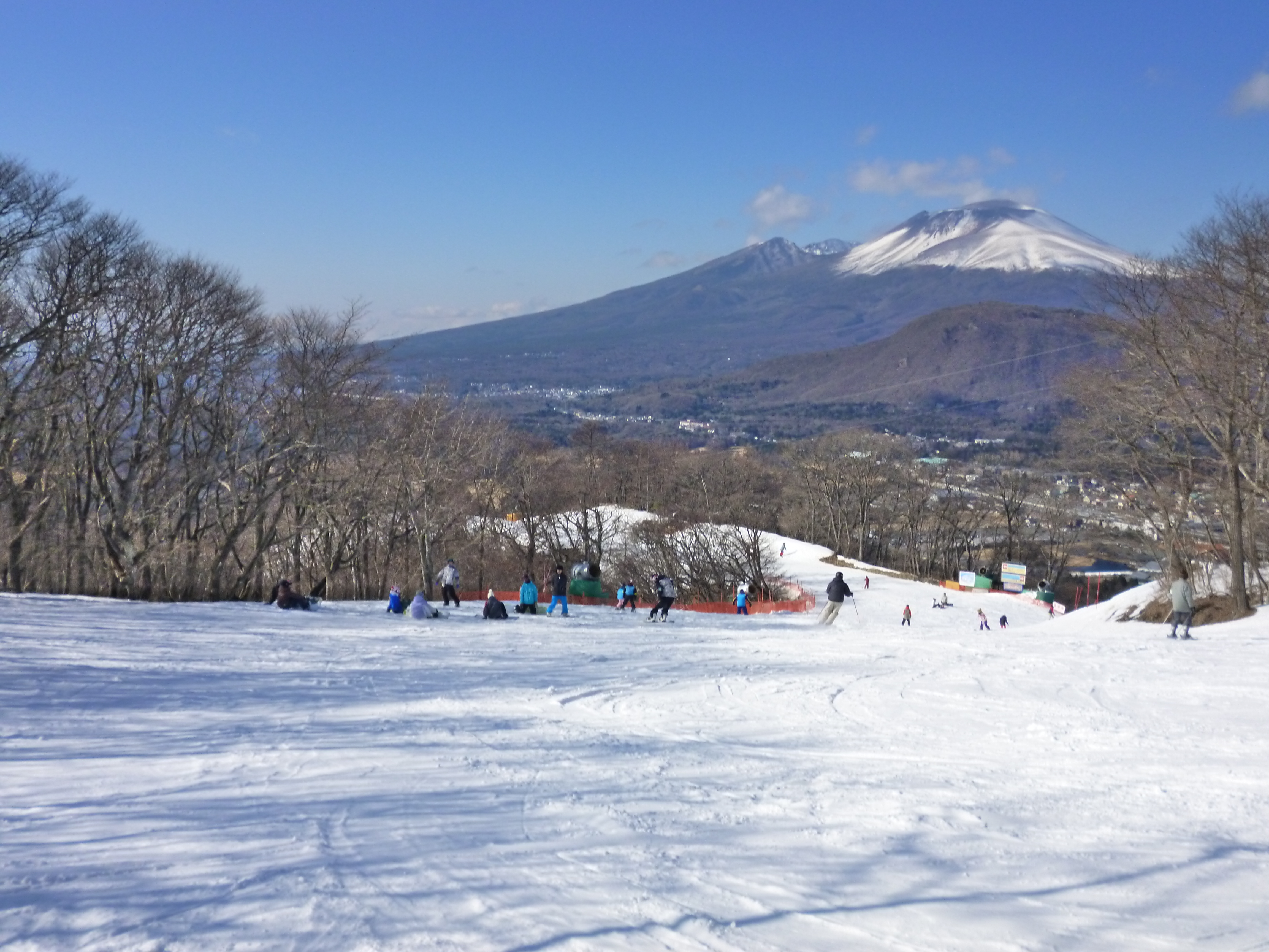 Prince Snow Resort Karuizawa and Mt. Asama in Karuizawa, Nagano, Japan.